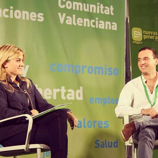 Eva Ortiz Vilella (2013)